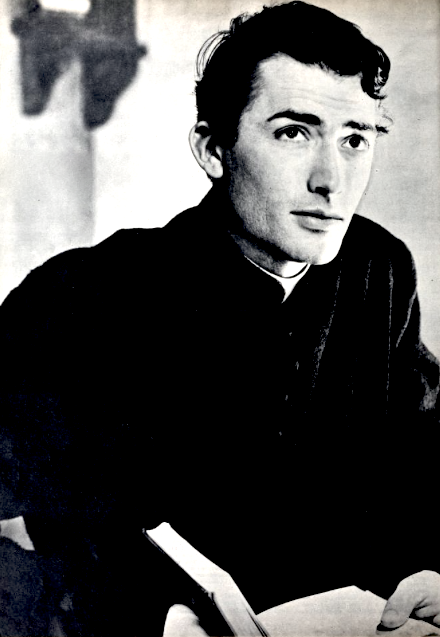 Gregory Peck in Days of Glory, from Photoplay